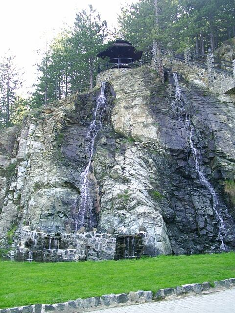 Artifical waterfall - part of the Šarganska osmica railway near Višegrad (BiH) and Užice (Serbia)